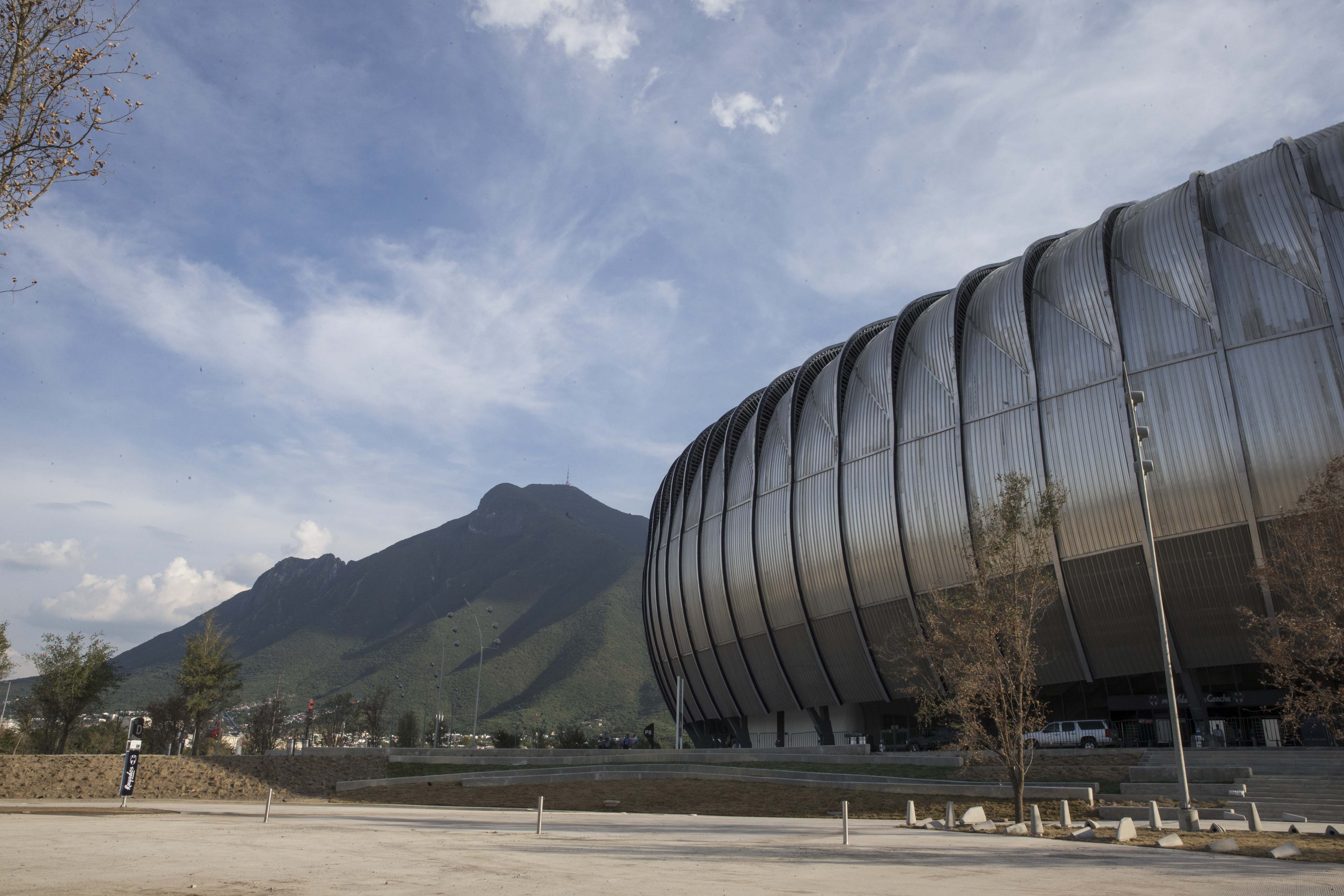 Estadio BBVA Bancomer